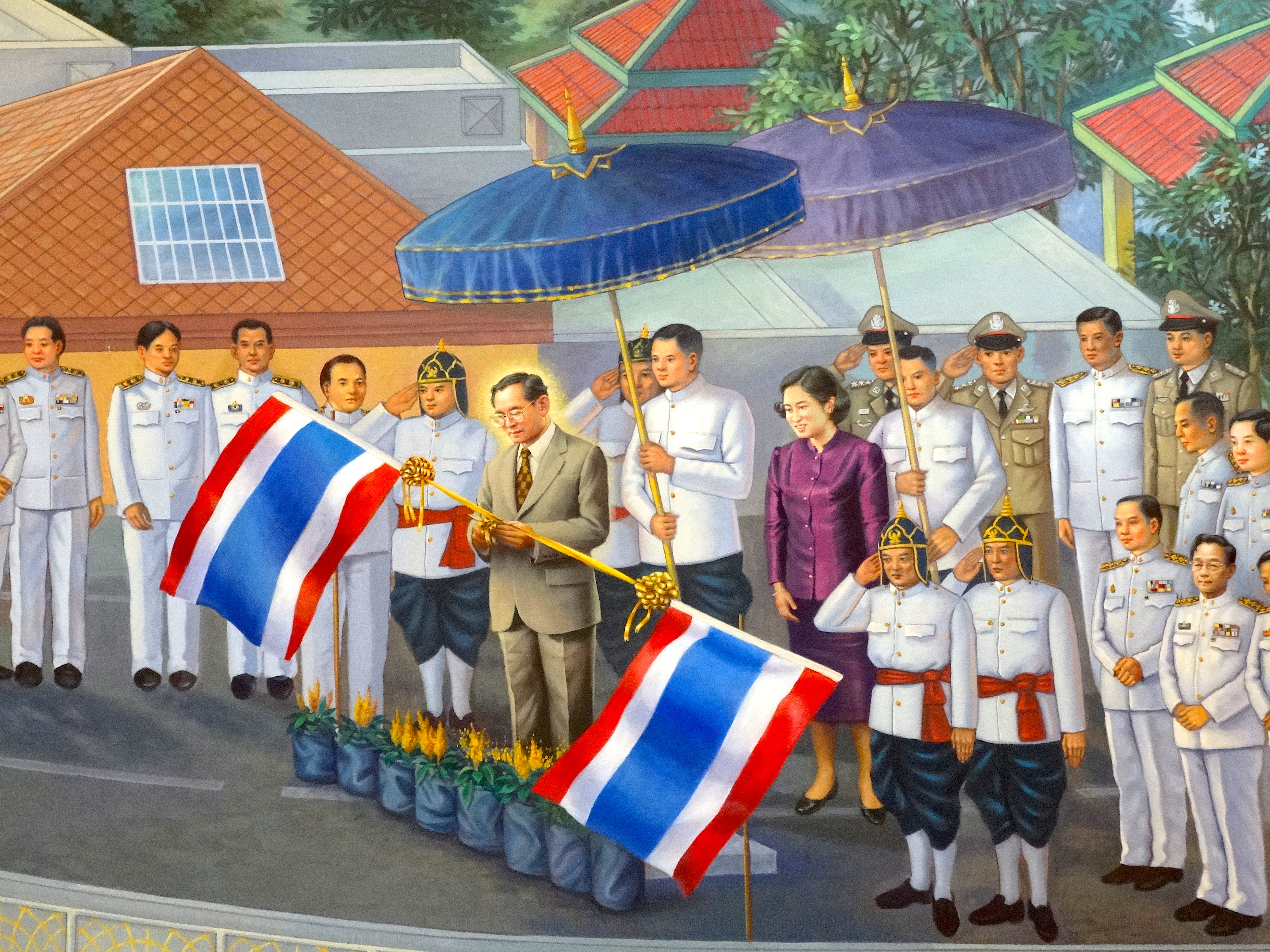 Art and Decoration from Royal Crematorium King Rama 9 of Thailand.